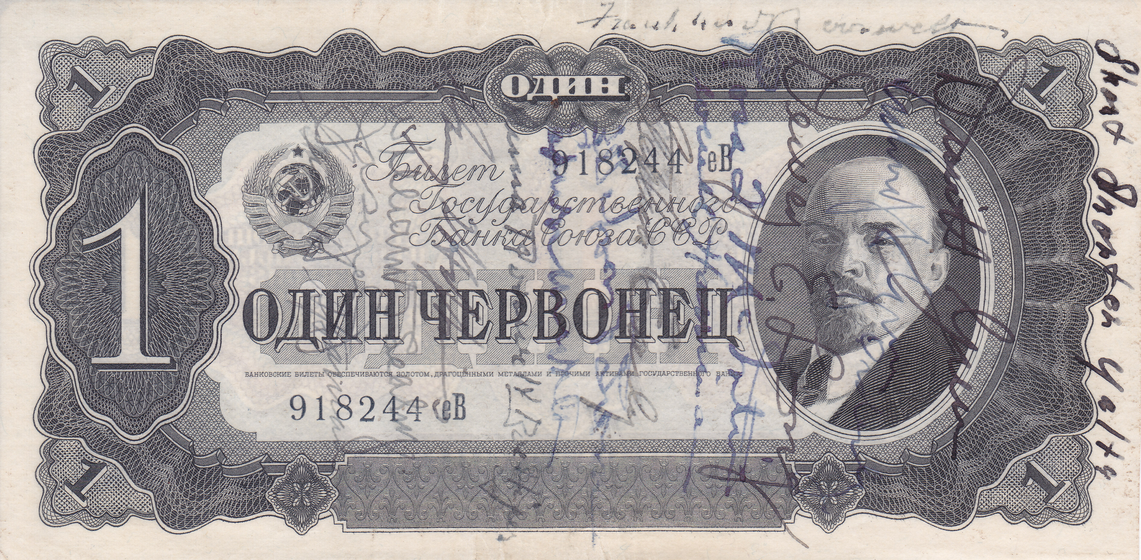 1 Chervonets state bank note USSR (issued in 1937). Signed by Franklin D. Roosevelt and his team in February of 1945 during the Yalta Conference.